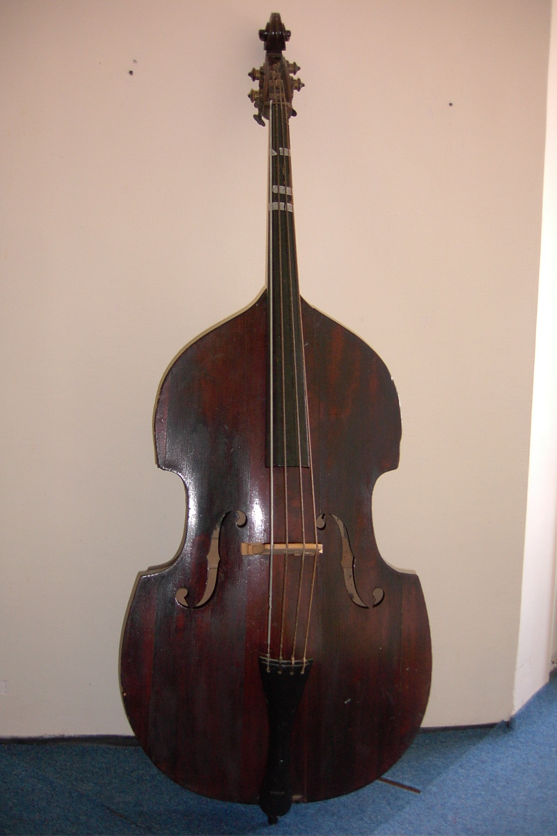 The oldest contrabas at elementary music school in Kocani, Republic of Macedonia